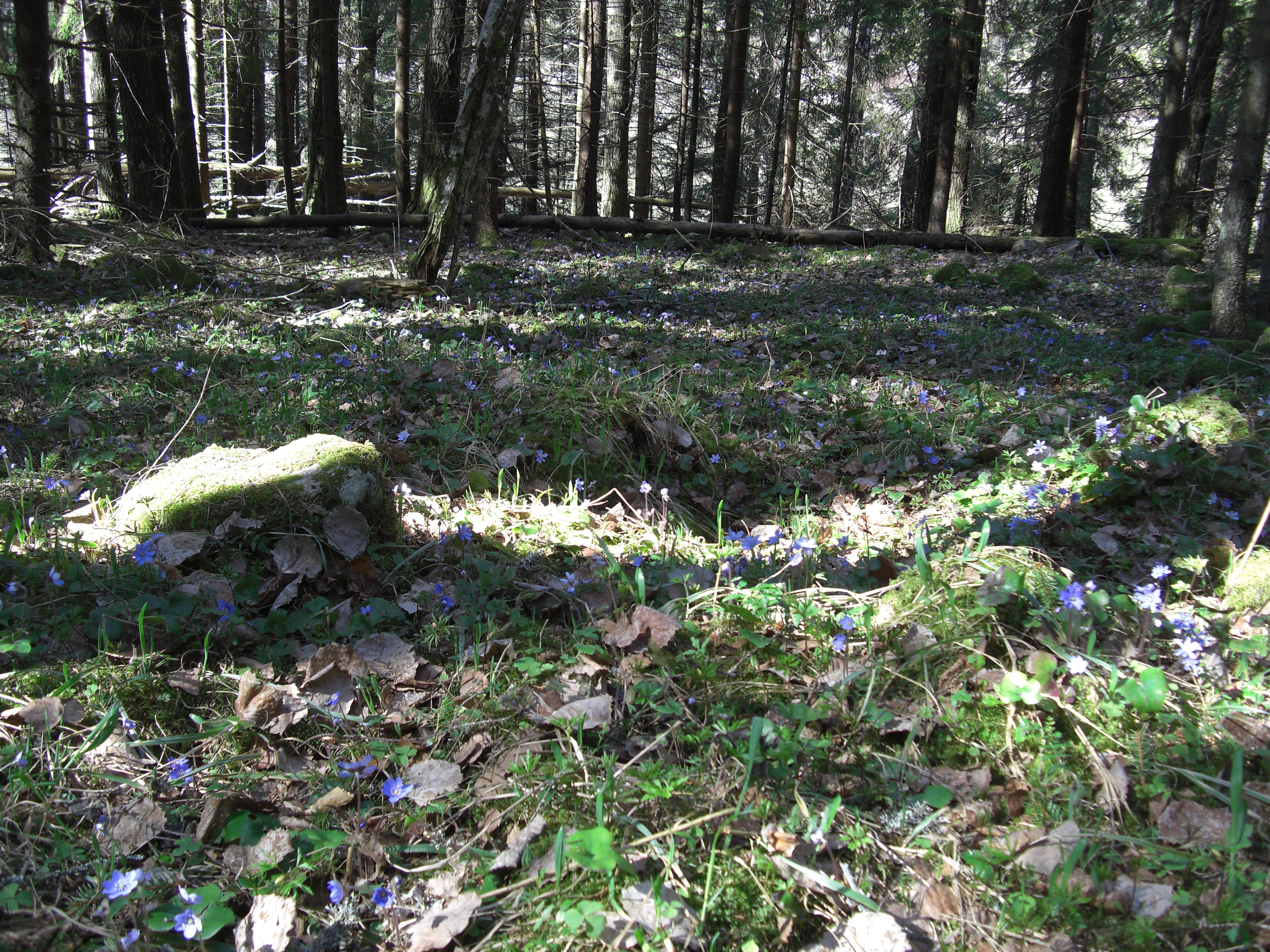 Houseground pit at Sandholmen